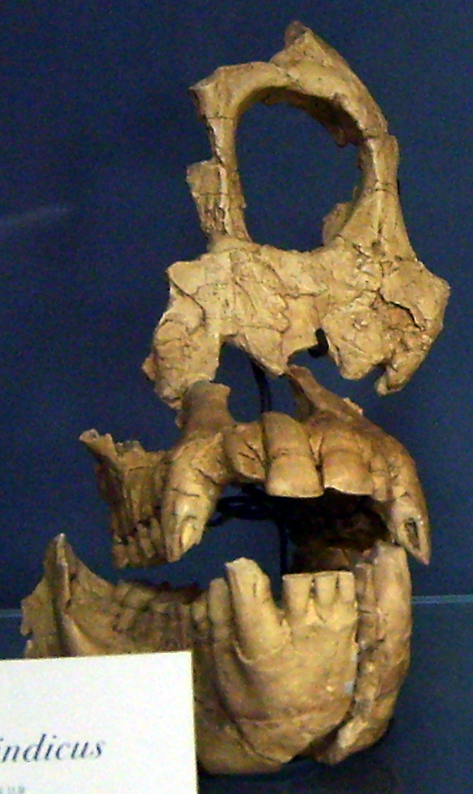 Sivapithecus indicus skull, Muséum national d'histoire naturelle, Paris.